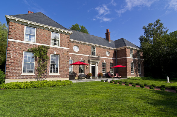 155 Western Promenade, Portland, Maine, designed by William Lawrence Bottomley, 1919-1920